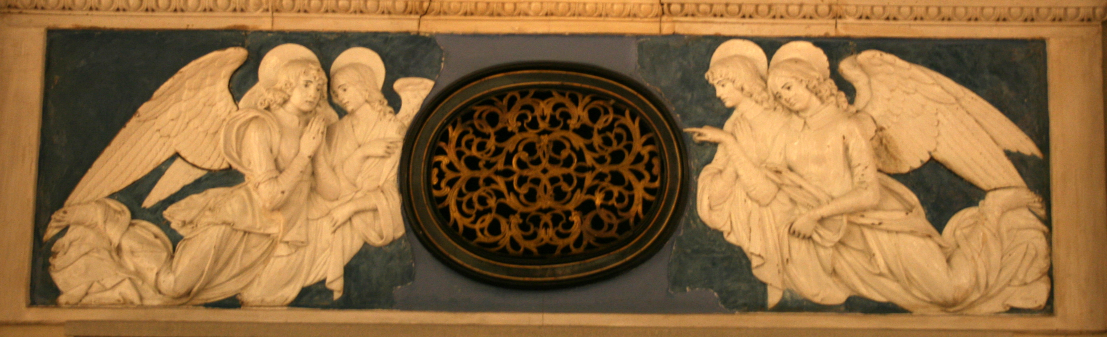 Detail of the altar of the Holy Milk formerly in Collegiate Church of San Lorenzo in Montevarchi. By Andrea della Robbia